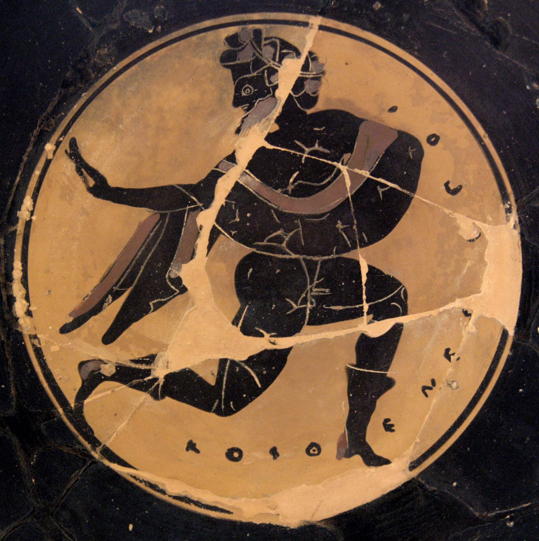 Komast. Black-figure tondo from an Attic bilingual kylix, ca. 530–520 BC. From Vulci.